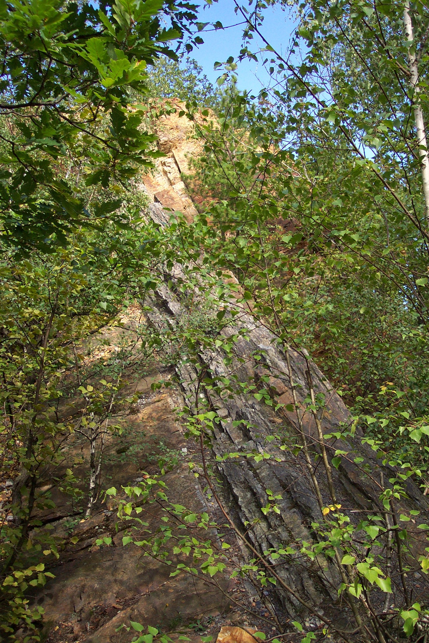 Nature of the hill Skalka in Prague Smíchov, Kotlářka area